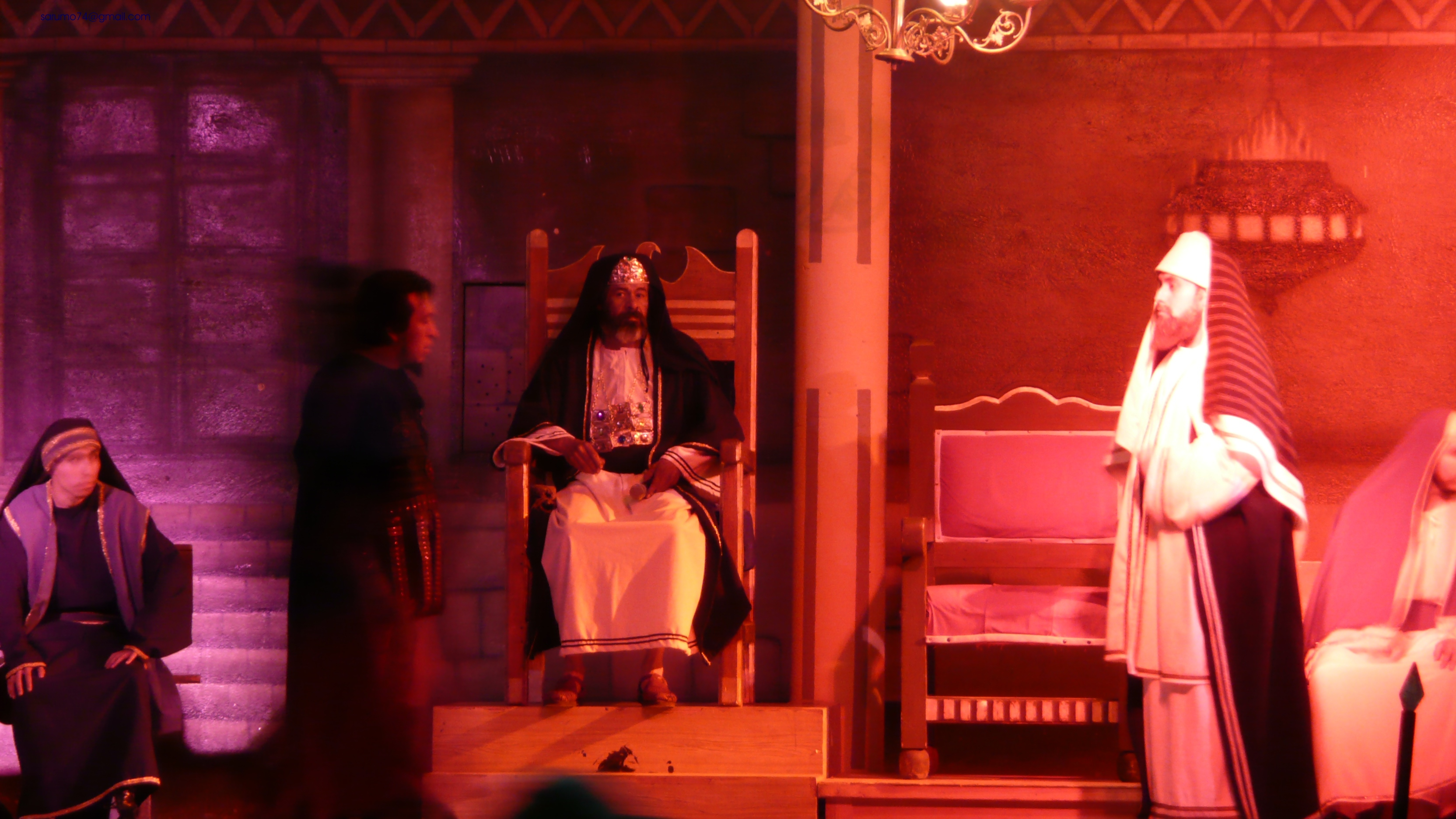 Scene of the Sanhedrin discussion on Friday of Holy Week.